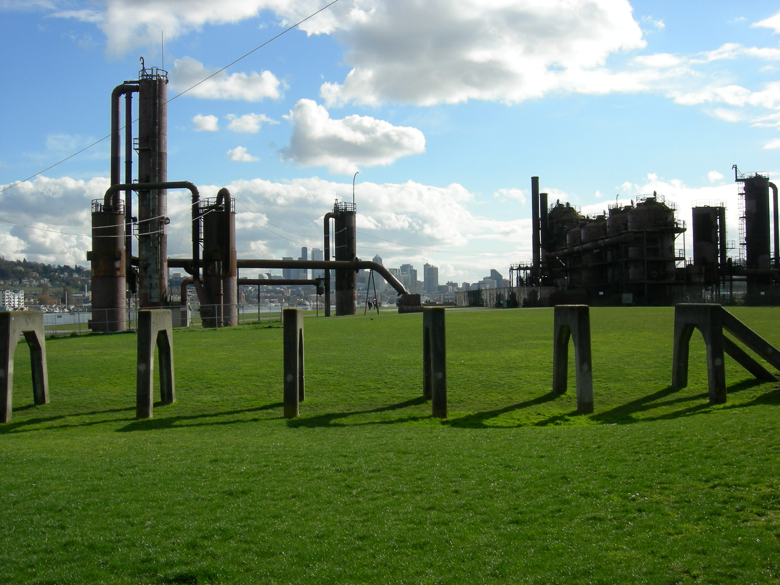 Gas Works Park, Seattle, Washington.